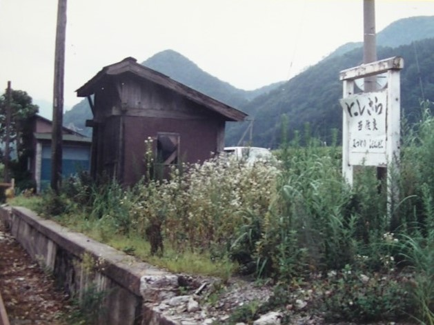 Hokutetsu Kinmei line Nishisara station